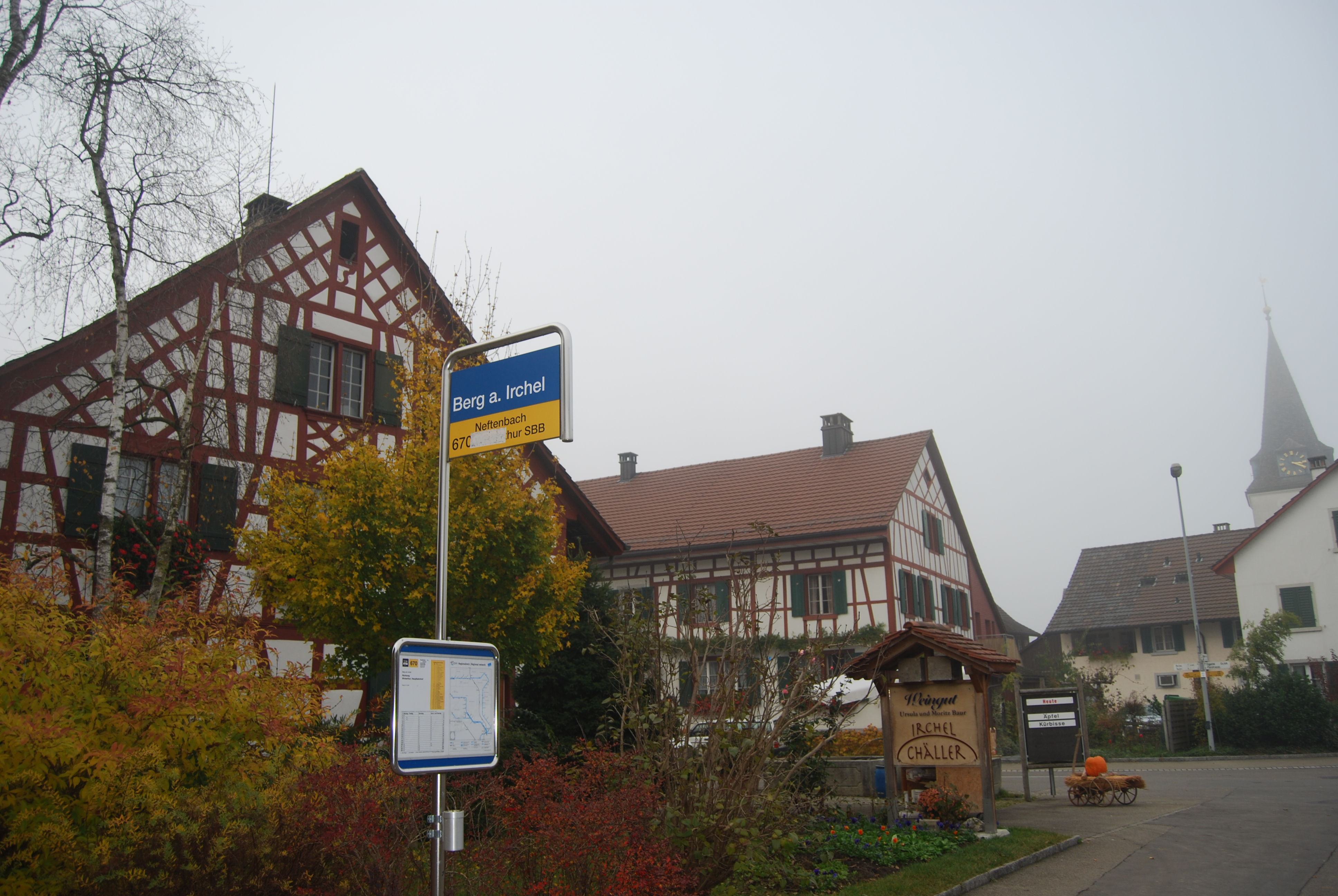 Berg am Irchel, canton of Zürich, SwitzerlandEsperanto: Berg ĉe Irchel, Kantono Zuriko, Svislando